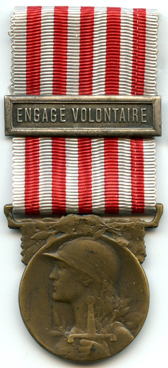 1914-18 War Commemorative medal (France) Obverse